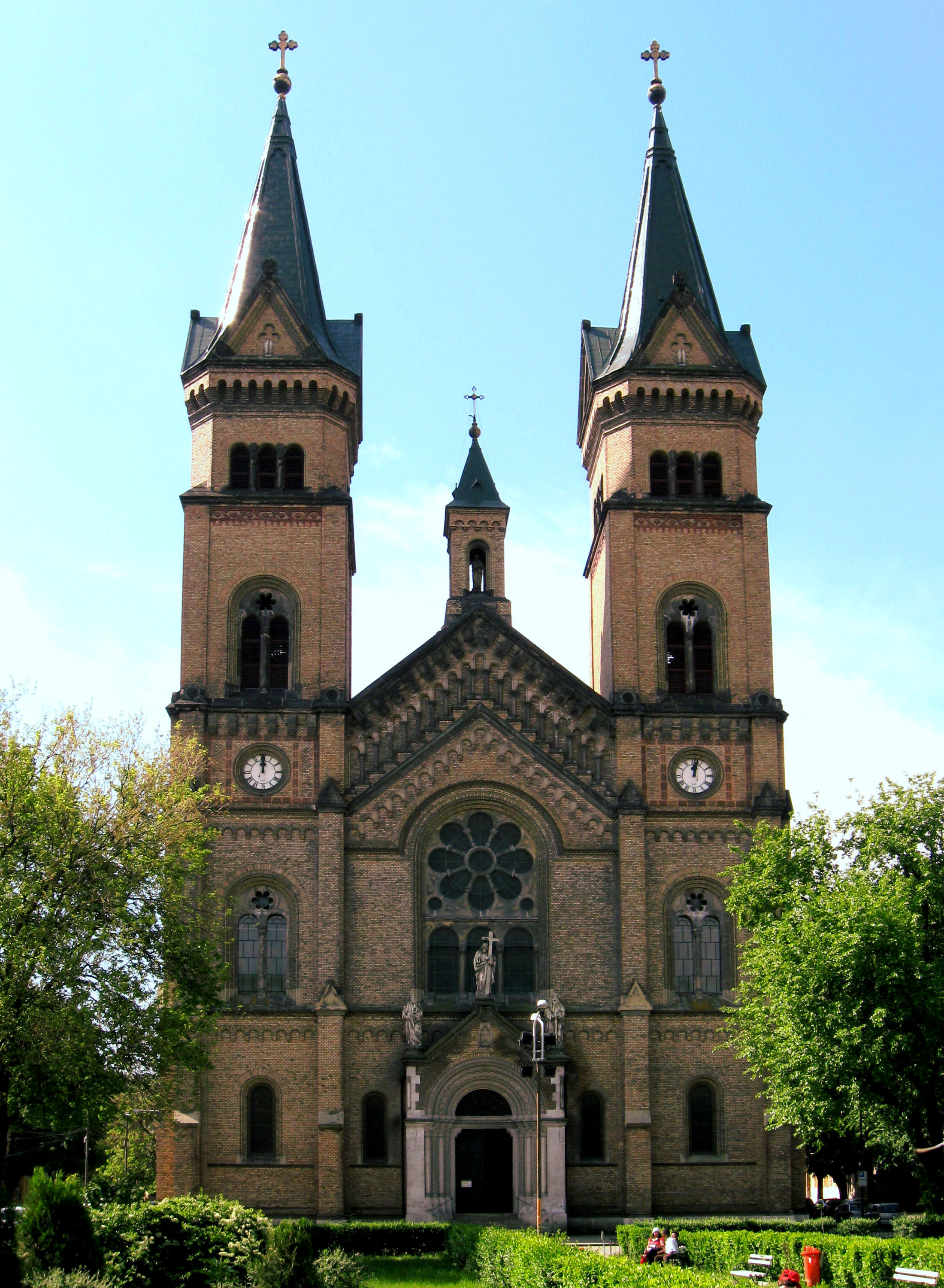 Catholic Church "Millennium", Fabric, Timisoara.